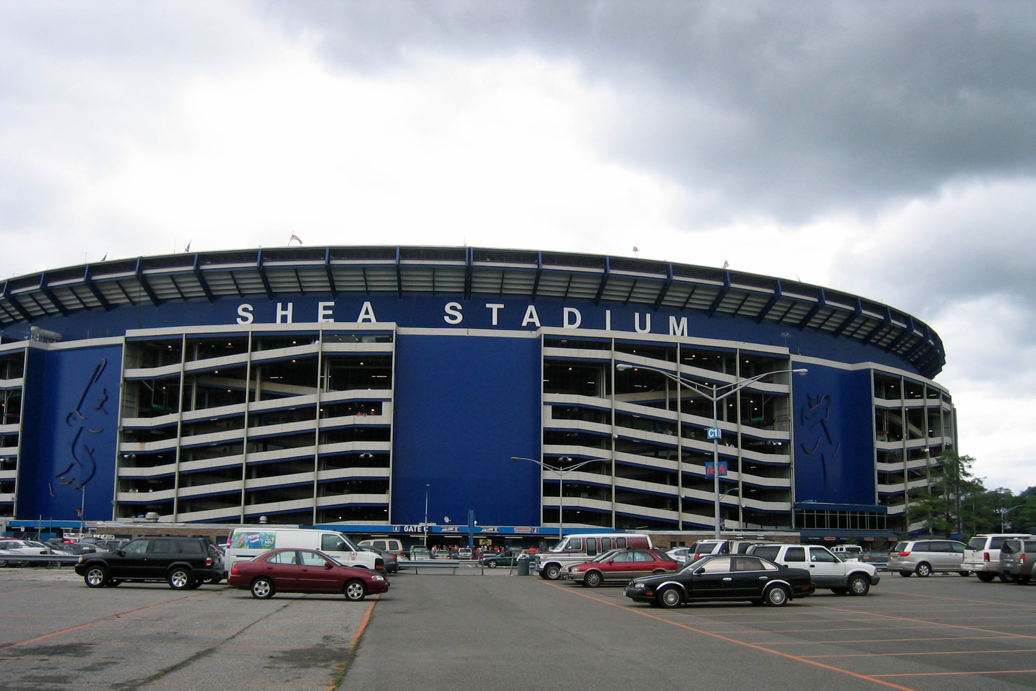 Exterior of Shea Stadium, Flushing, New York, USA